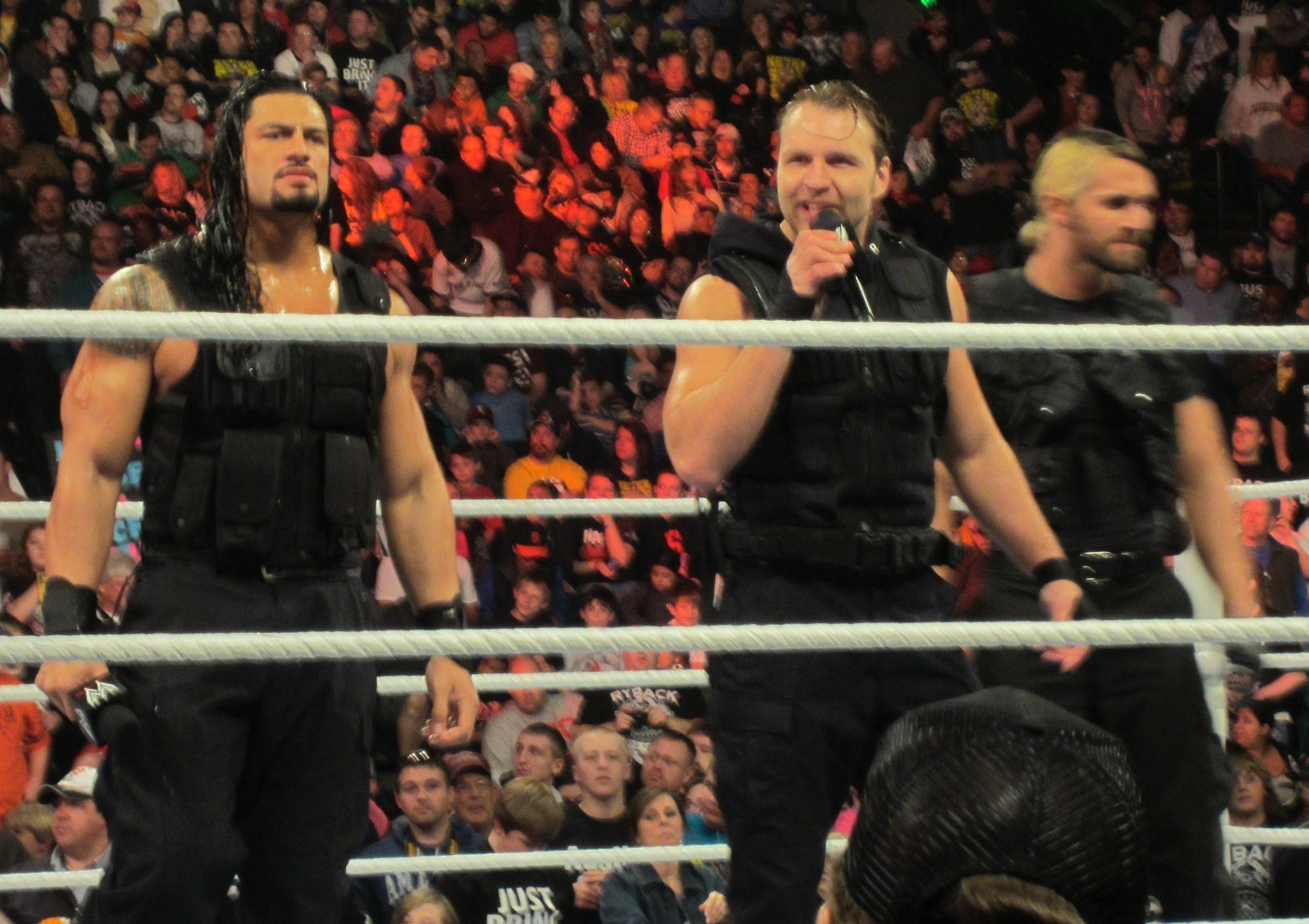 The Shield (left to right: Roman Reigns, Dean Ambrose and Seth Rollins) addresses the audience at the WWE Raw show on February 11, 2013.